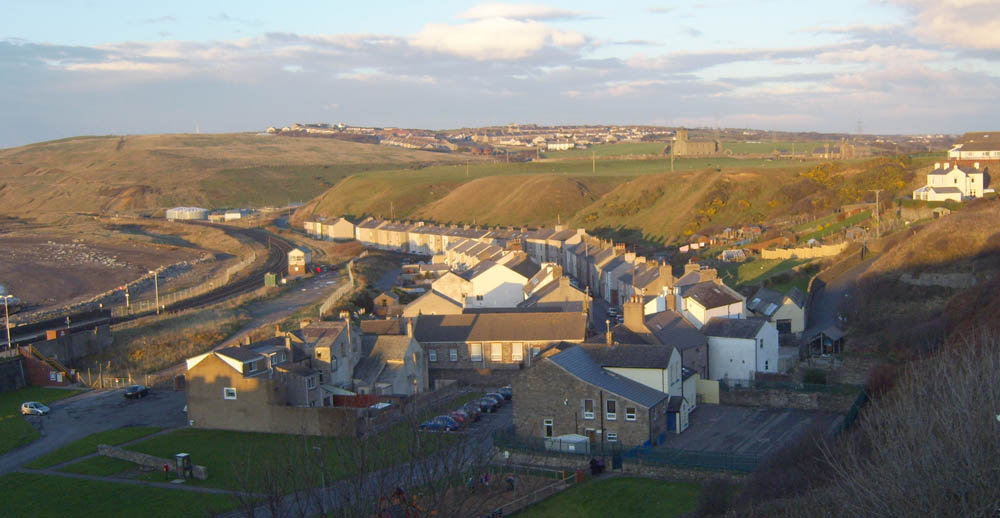 The north part of Parton, Cumbria, from the Brows, 20 November 2007. The site of the former harbour, now a village green following slum clearance in the 1940s, is at bottom left. At far right can be seen part of the 20th century housing development.